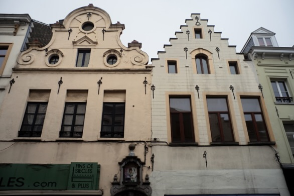 ref: PM_057622_B_Brussel; Brussel/Bruxelles; Hoogstraat/Marollen; Brussels region; Belgium; ; Cultural heritage; Europe/Belgium/Brussel; Europe/Belgium/Bruxelles; Wiki Commons; Photographer: Paul M.R. Maeyaert; © Paul M.R. Maeyaert